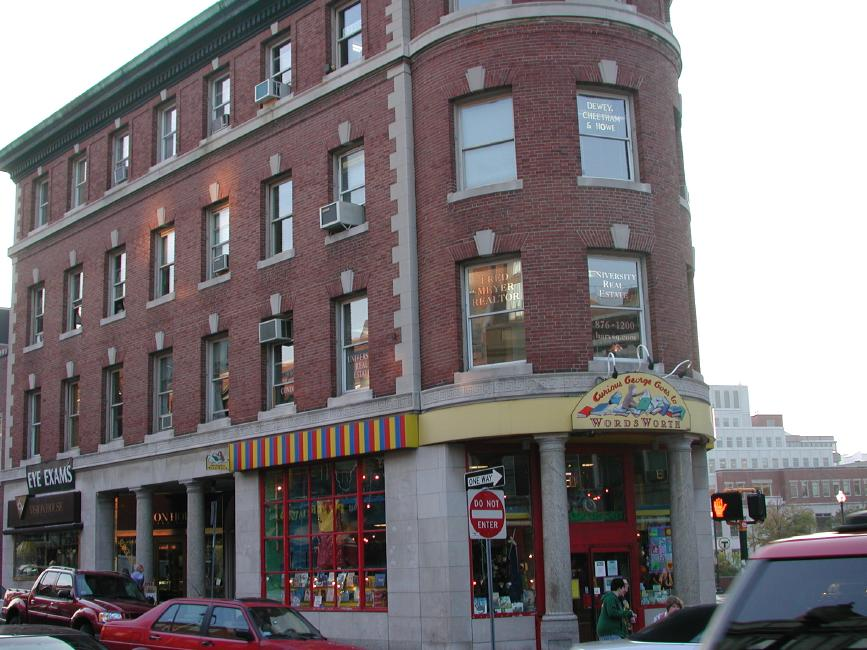 Third-floor office of "Dewey, Cheetham & Howe" in Harvard Square, Cambridge, Massachusetts — otherwise known as the headquarters of the radio show Car Talk.